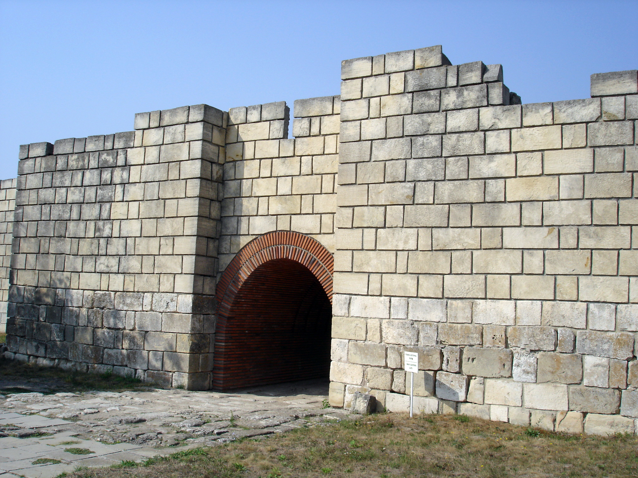 Fortress in Pliska - First Bulgarian Capital